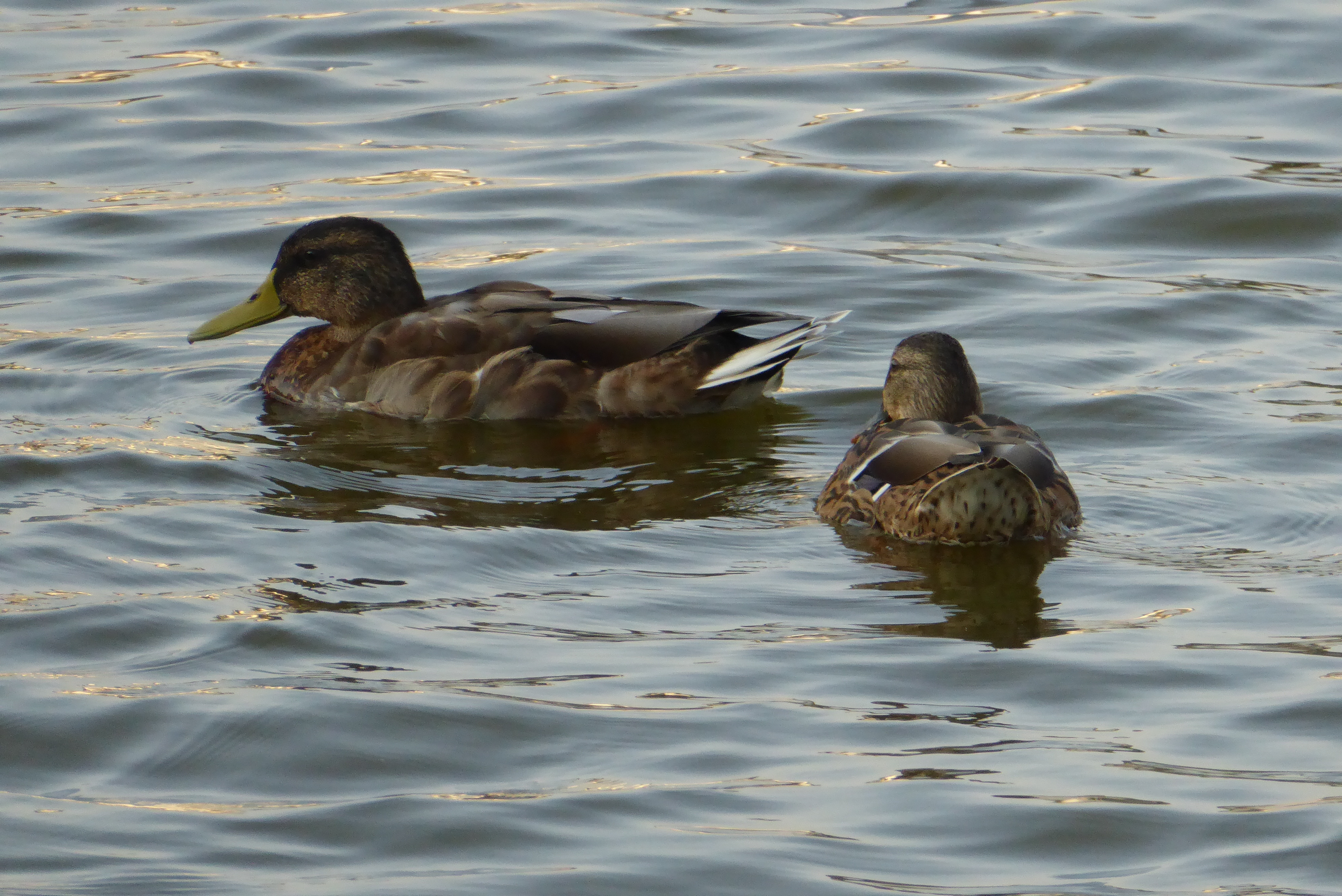 Birds of Ramat Gan, National Park, Ramat Gan